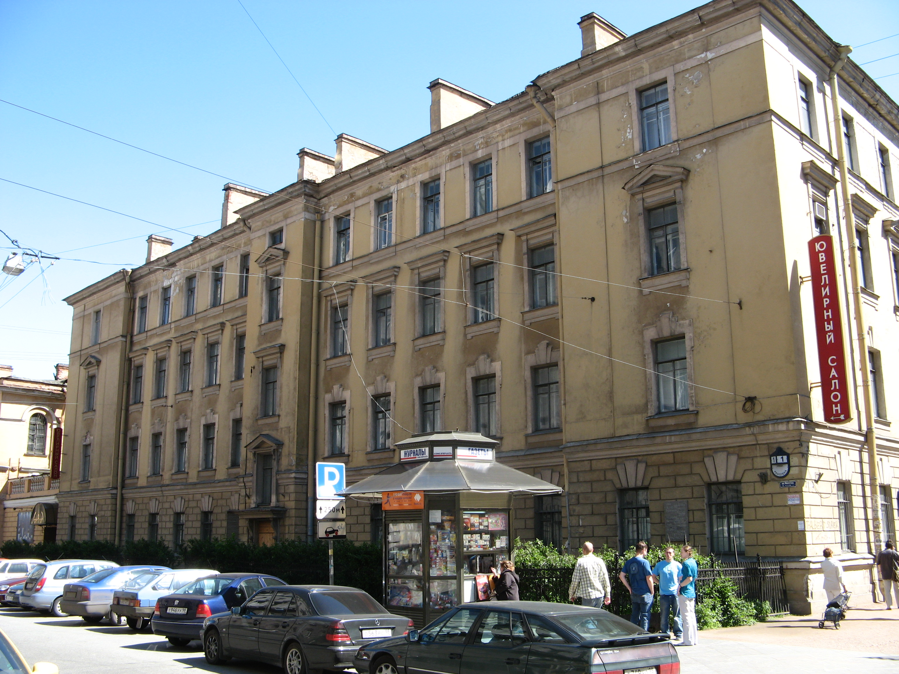 Rentgen Street, 1 (St. Petersburg)